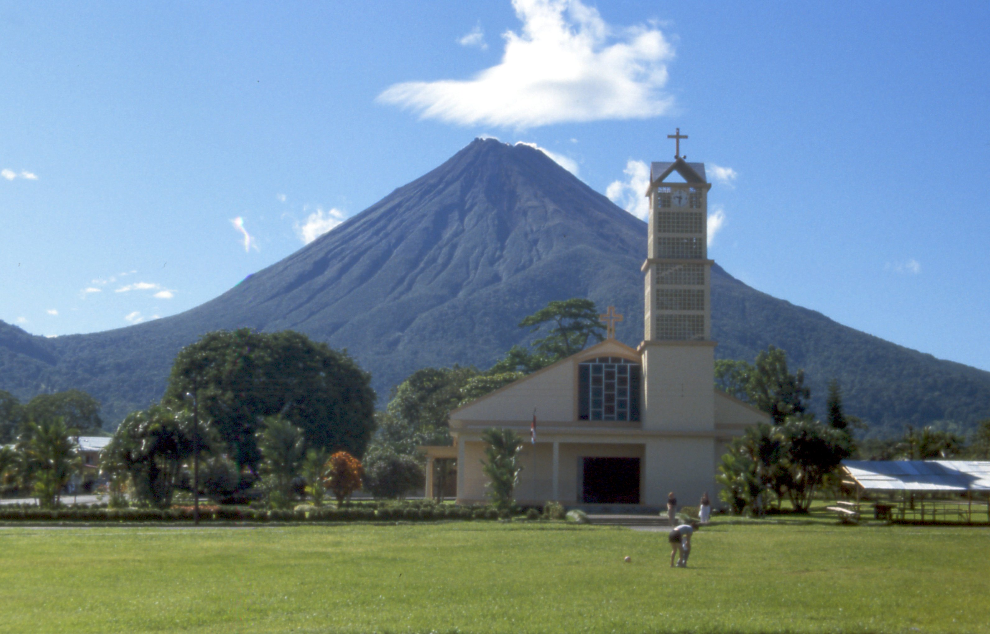 Volcán Arenal seen from Fortuna, Costa Rica 12/2001 by Matthias Prinke